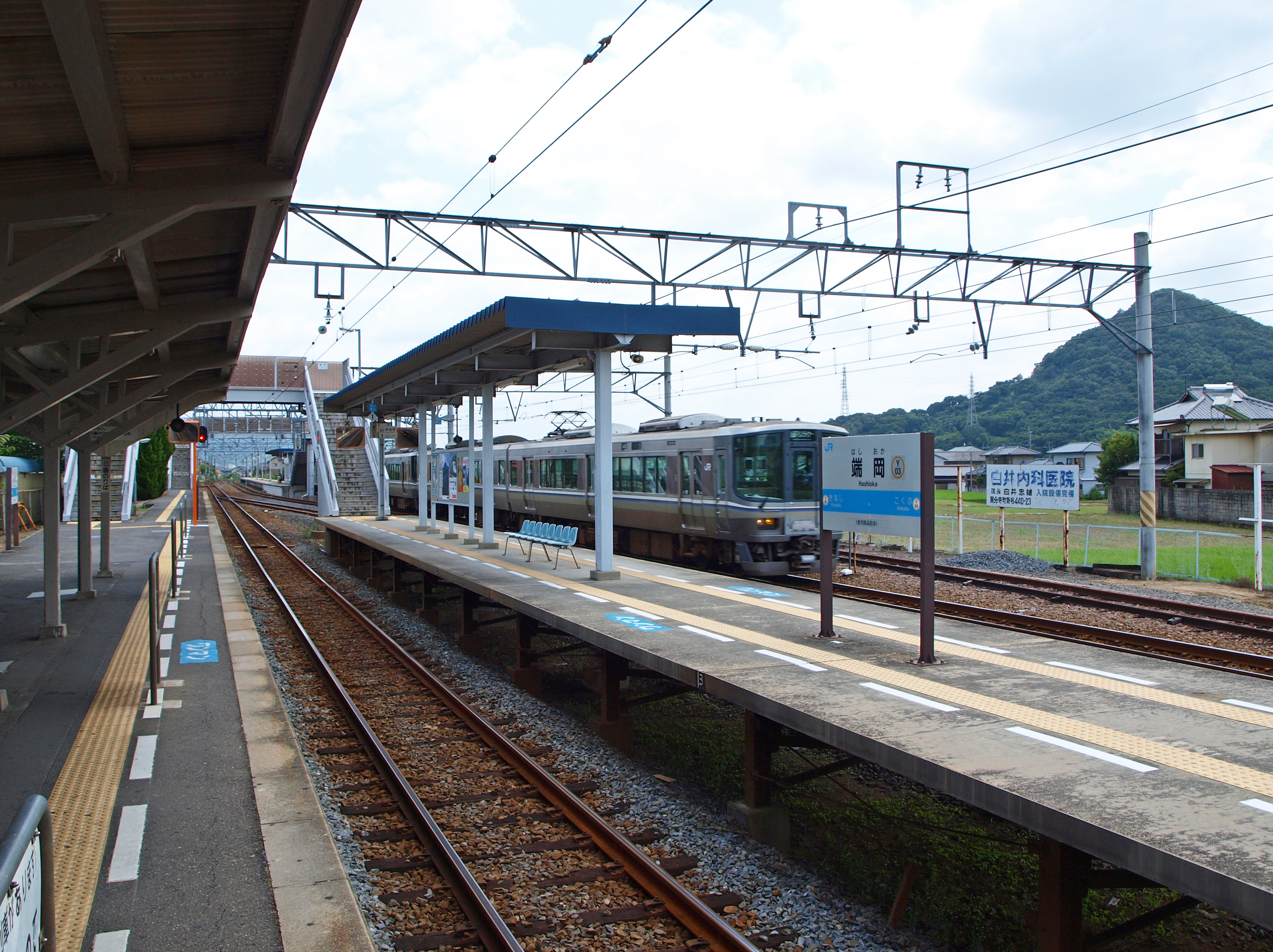 Hashioka station, Yosan-line, JR Shikoku, Japan